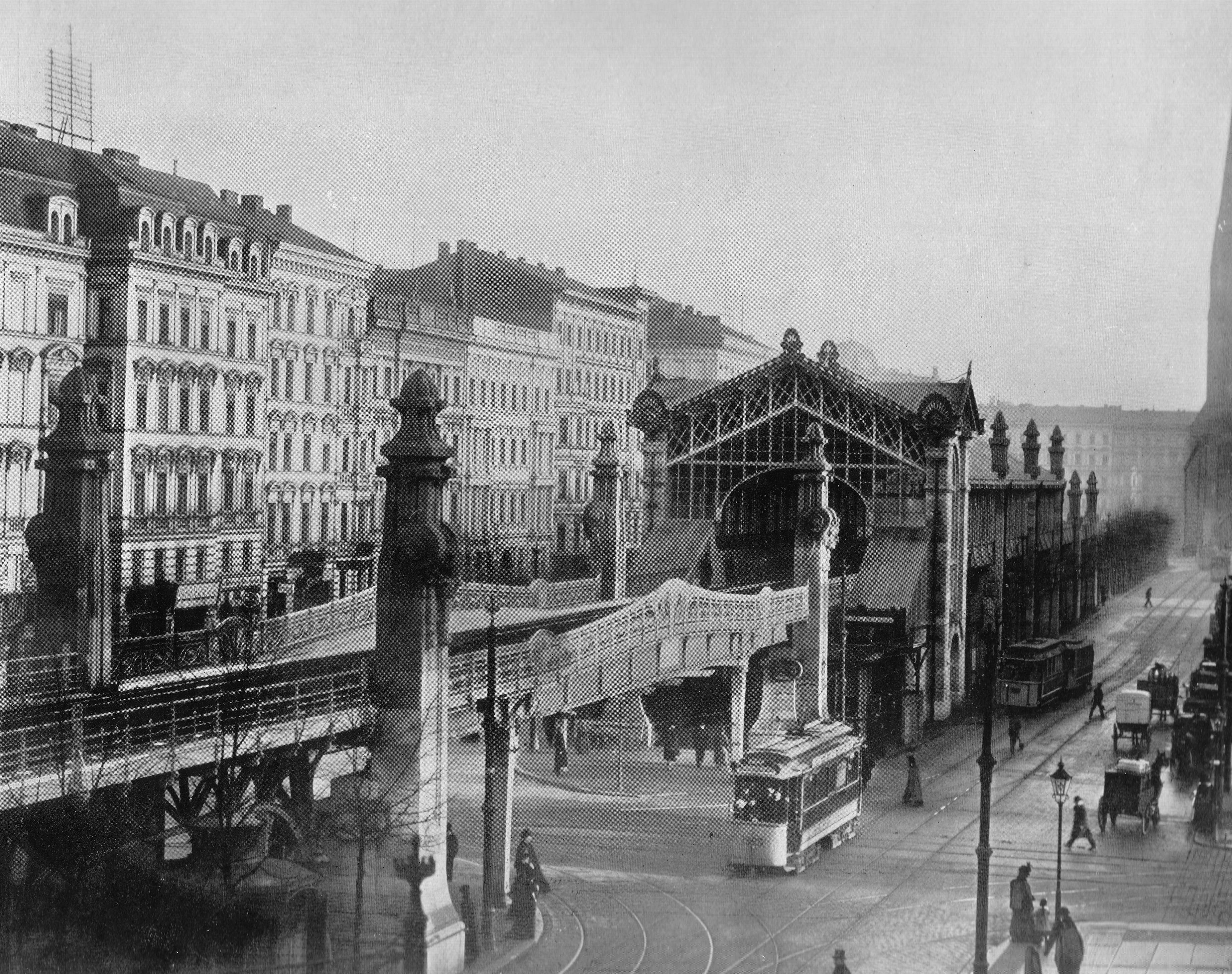 The Berlin U-Bahnstation Bülowstraße